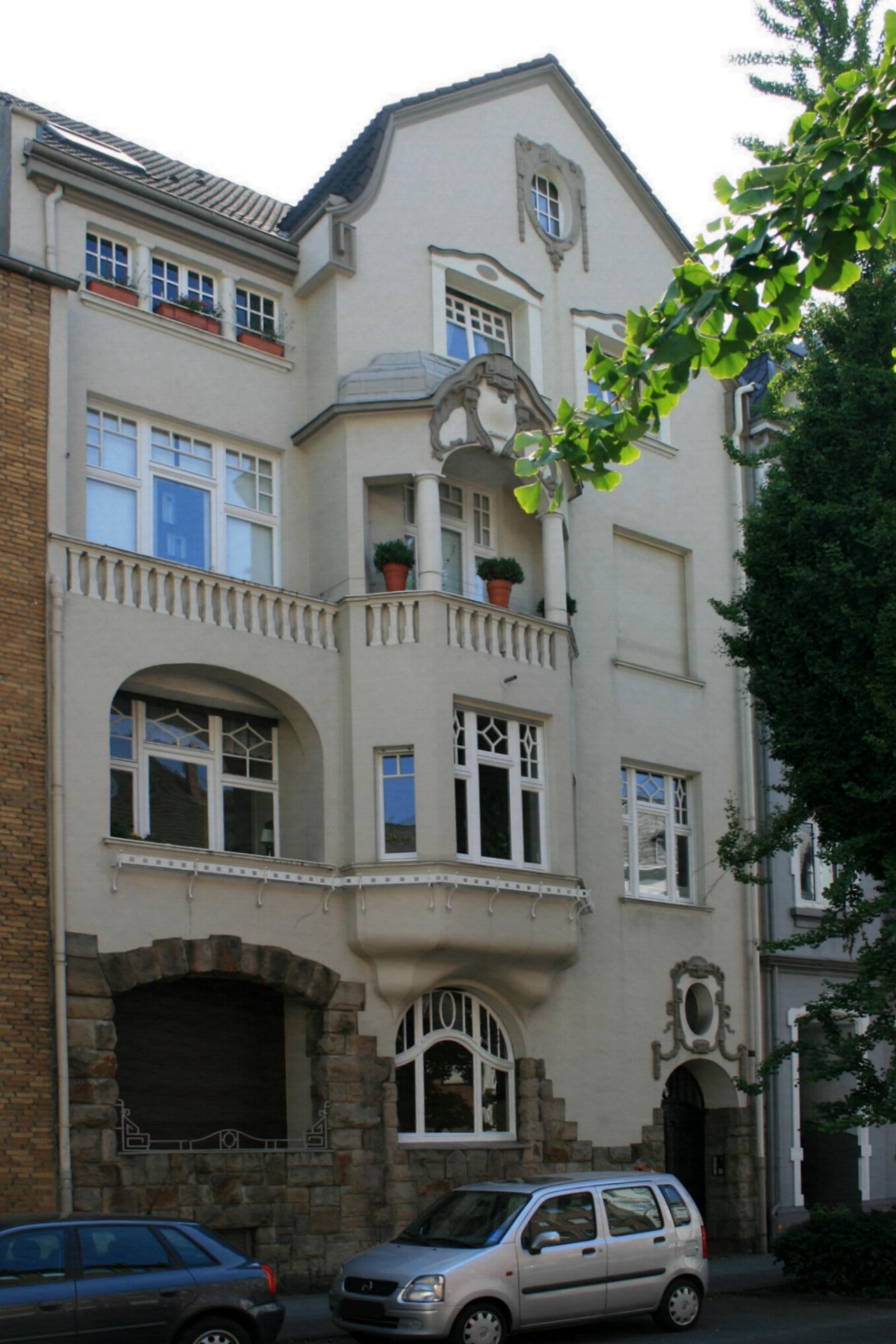 Cultural heritage monument No. B 002 in Mönchengladbach